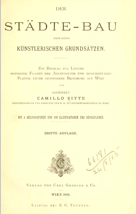 Cover page of a book Der Städtebau nach seinen künstlerischen Grundsätzen by Camillo Sitte (1843 – 1903), an Austrian architect and urban theorist